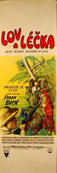 Czech movie poster to American film Fang and Claw (1935)